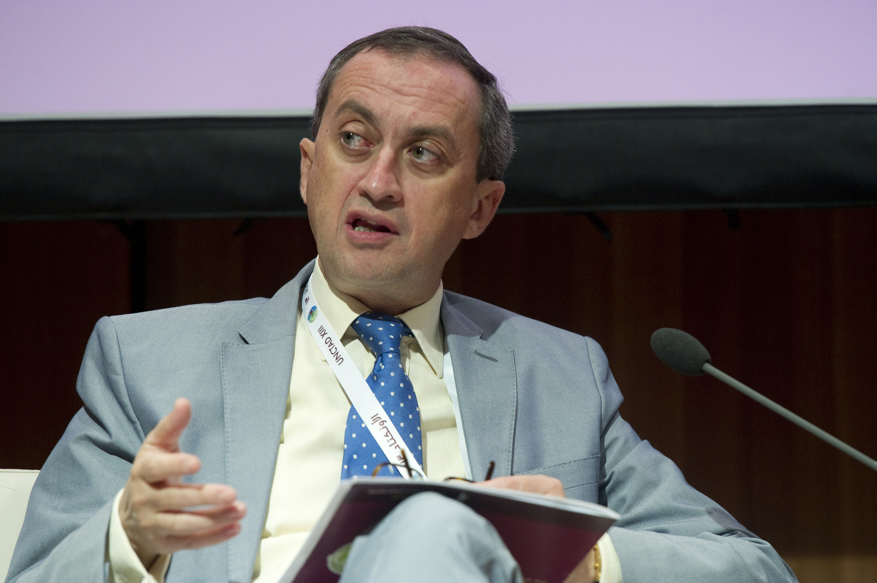 Mr. Juan Manuel Gomez Robledo, Vice Minister for Multilateral Affairs and Human Rights, and Representative of Mexico's G20 Sherpa, Ministry of Foreign Affairs, Mexico